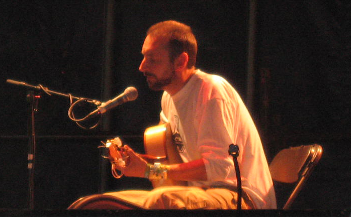 Fink @ The Greenman Festival 2006